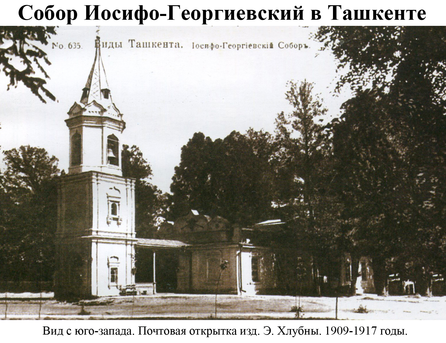 Ccathedra Iosifo-Georgievsky in Tashkent. View from the south-west. Post card ed. E. Hlubny. 1909-1917 years.